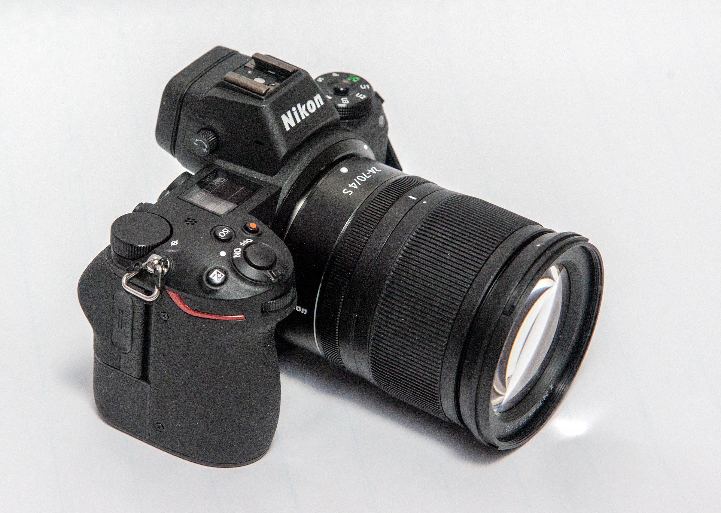 Nikon Z 6 top left, controls and lens